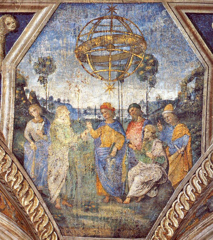 Allegory of Astrology Fresco Borgia Apartments, Hall of the Sibyls